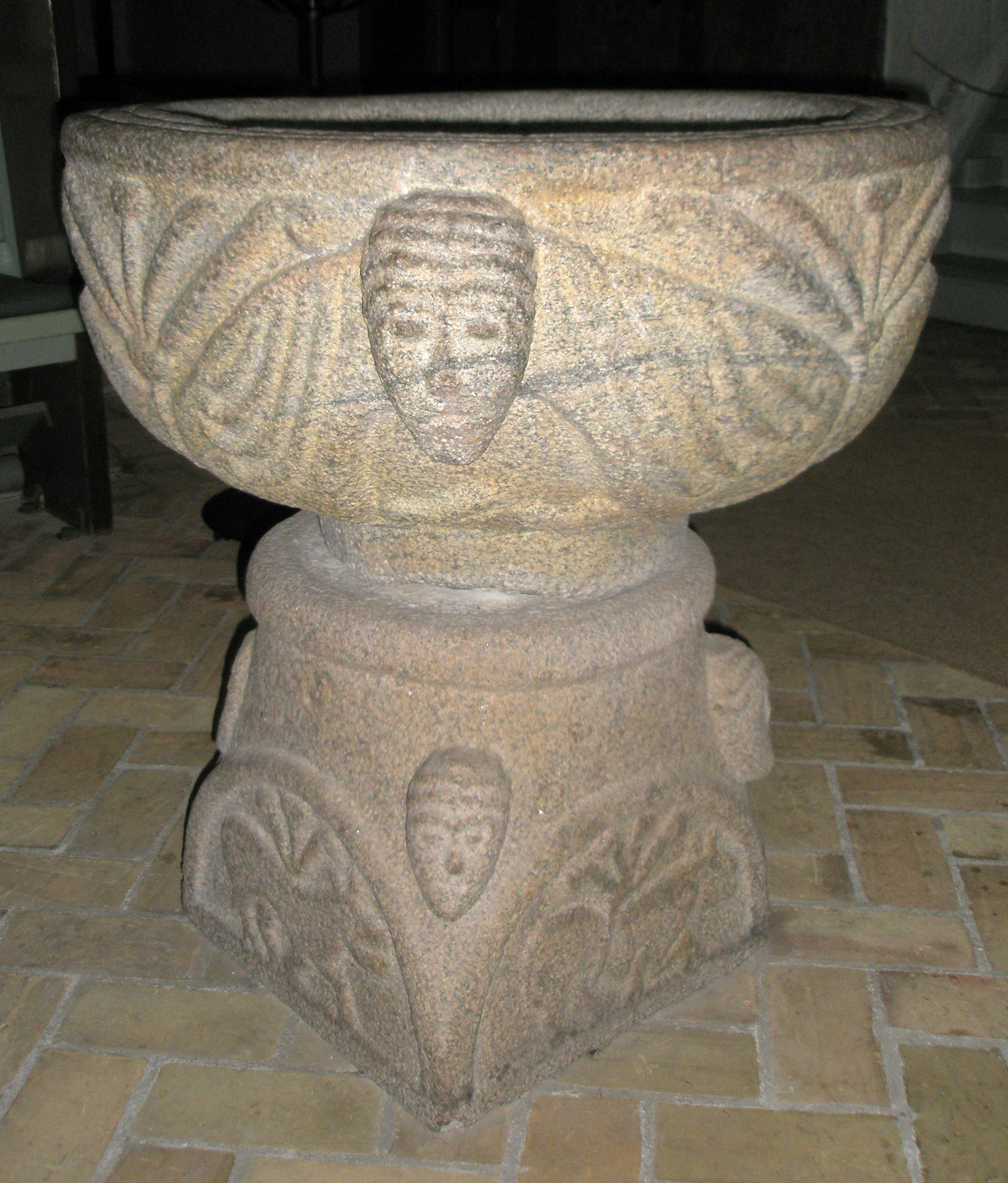 The baptismal font in Dejbjerg Kirke in Ringkøbing-Skjern Municipality, Denmark. It is a lion-font with two pair of lions at the base.